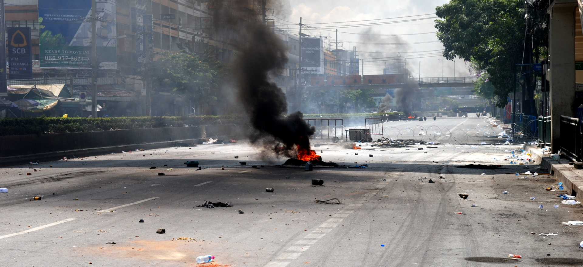 No Man's land: Tyres burning on Rama 4 road near soi Saphan Khu and razor wire put across the road. In the distance, near soi Suwan Sawet, the barricades of the "Red Shirts" can be seen. Sometimes rifle fire can be heard coming from the government side.